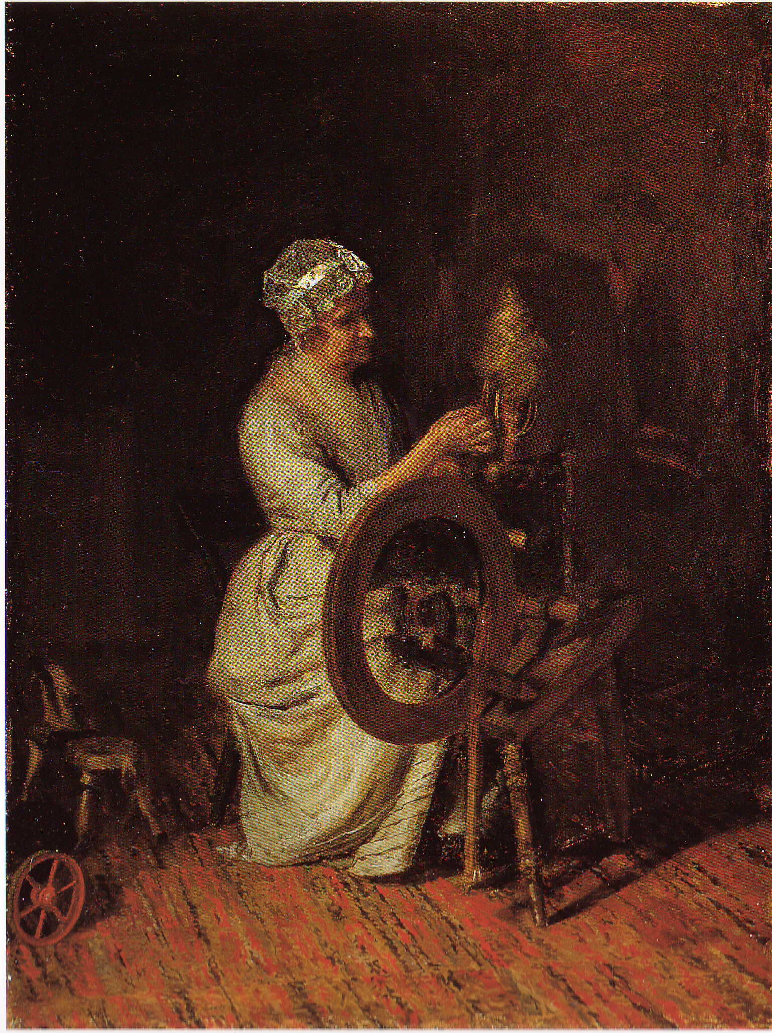 Painting In Grandmother's Time by Thomas Eakins